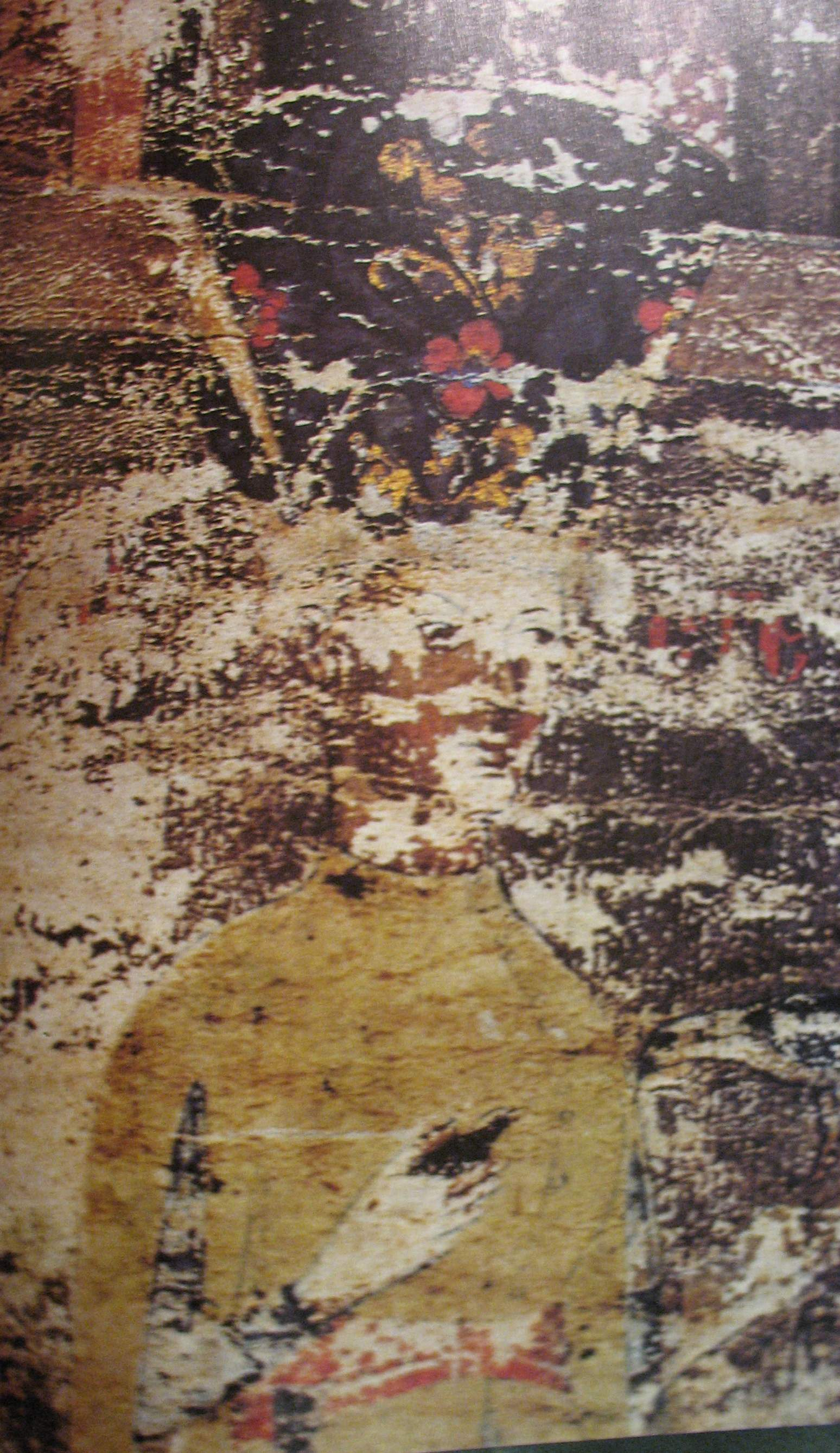 The ilustration of despot Stefan Branković in Esphigmenou charter from 1429.